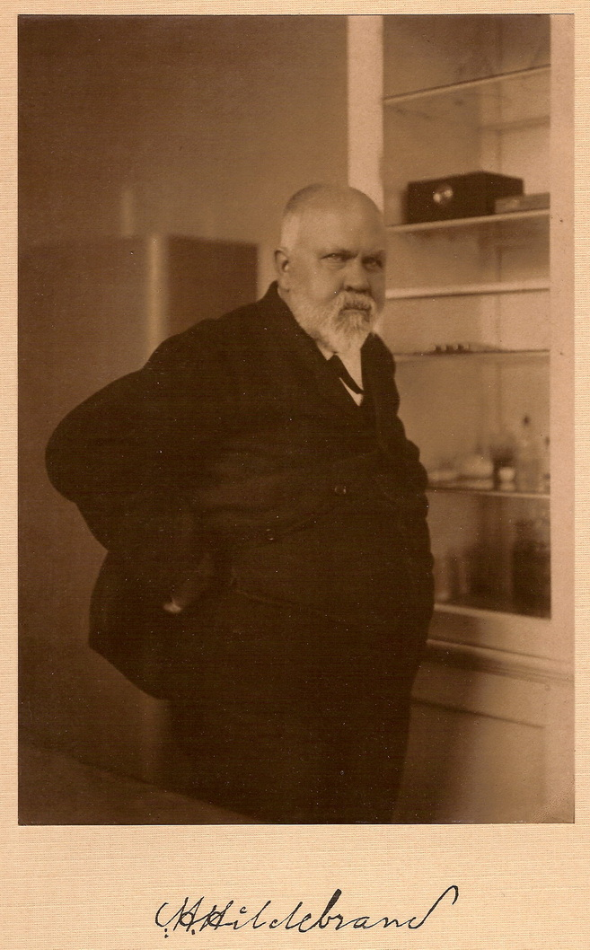 Hildemar Hildebrand (1851-1919), Swedish physician and professor of pediatrics at Lund University.